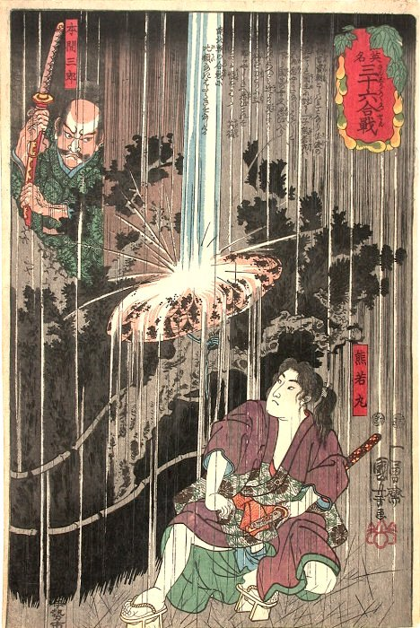 From a series named Thirty-six Famous Battles (Meiyo [or Yeimei] sanjûrokkassen), Publisher: Ise-ya Ichibei